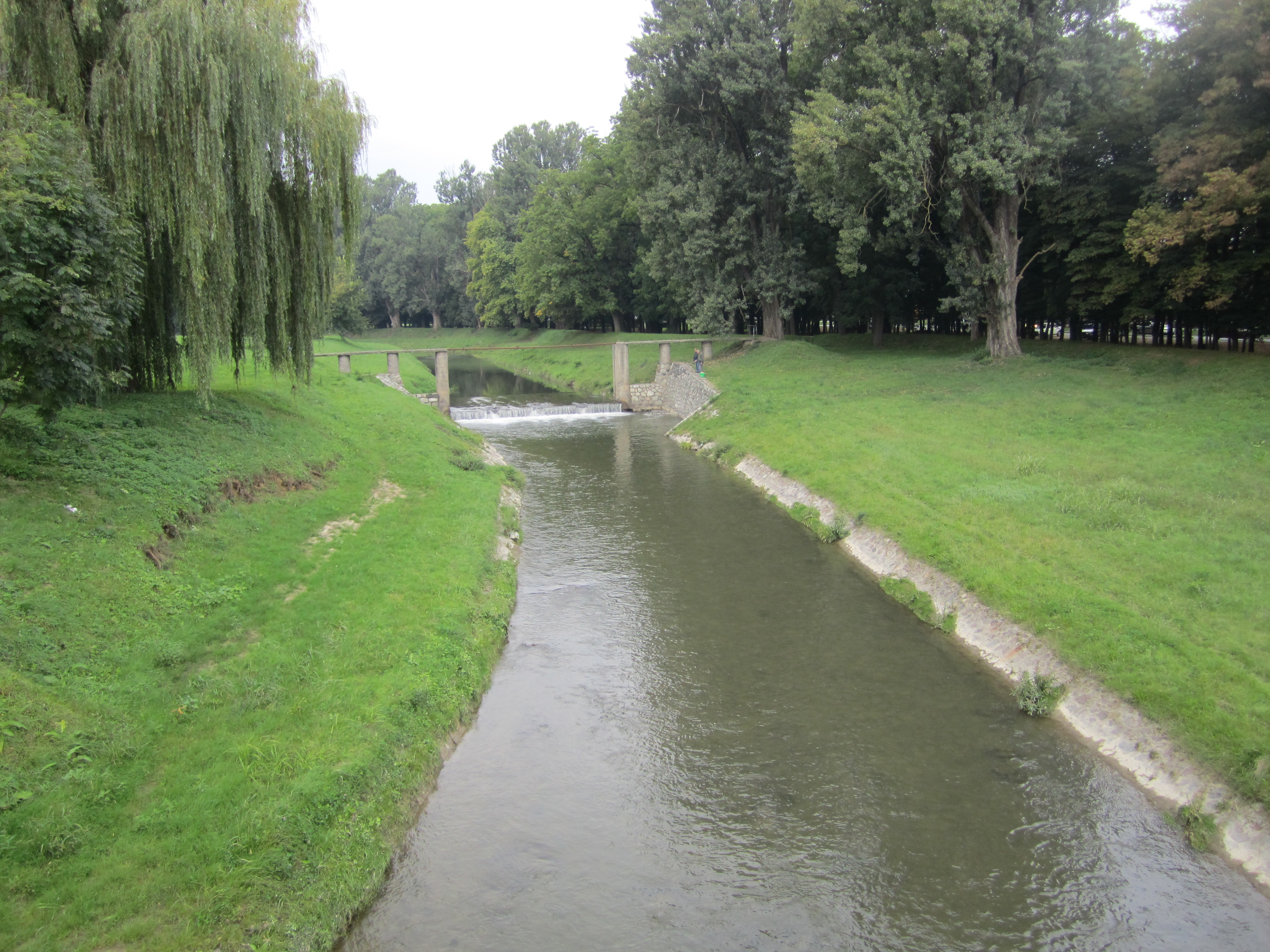 Orljava River in Pozega (Croatia)